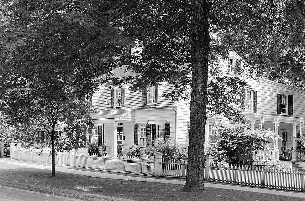 Reverend Thomas Hawley House, Main Street & Branchville Road, Ridgefield (Fairfield County, Connecticut)